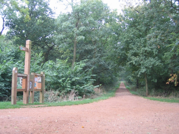 Maulden Wood, Beds. Trail guide near the A6 lay-by north of Clophill.